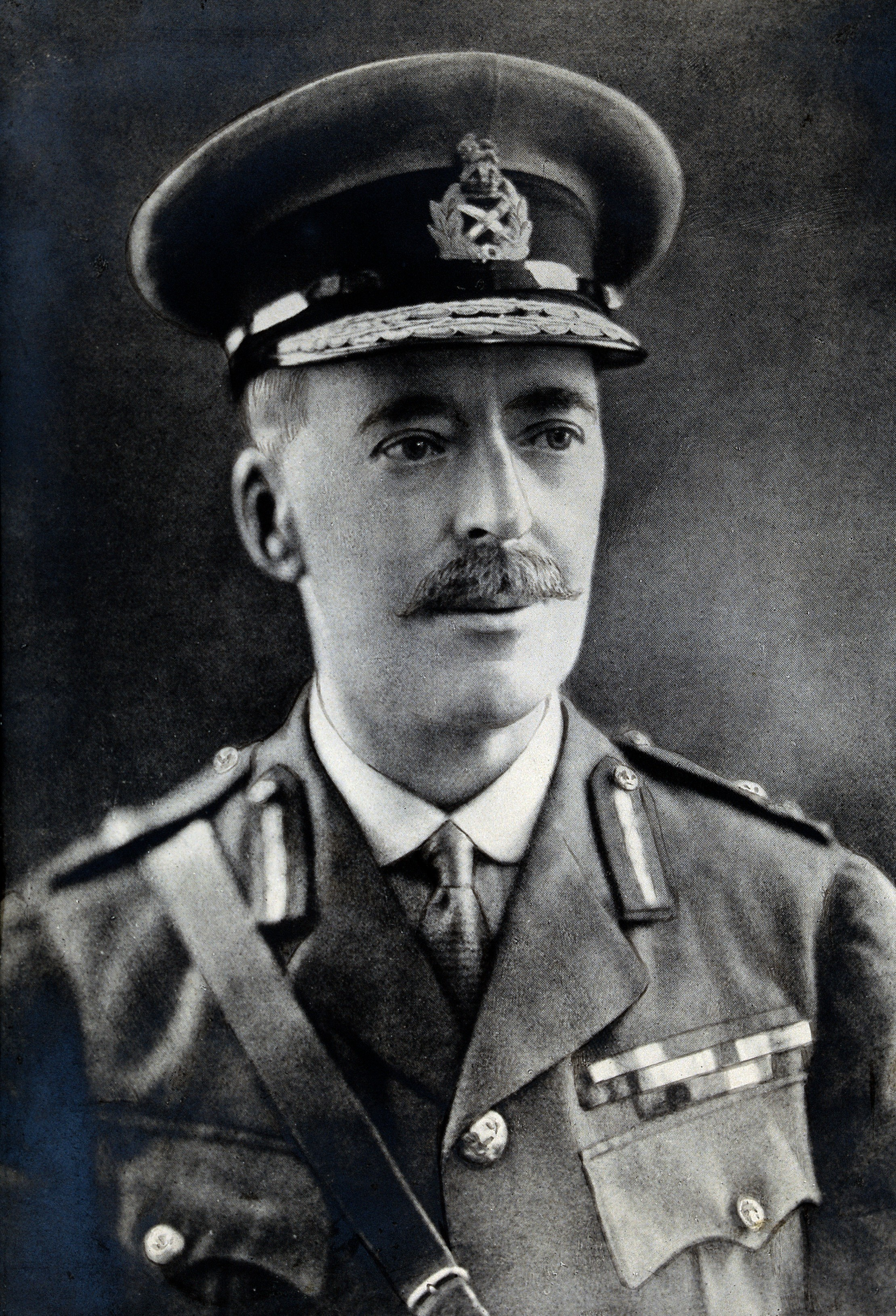 Sir William Boog Leishman. Photomechanical print by after Bassano Ltd. Iconographic Collections Keywords: portrait prints